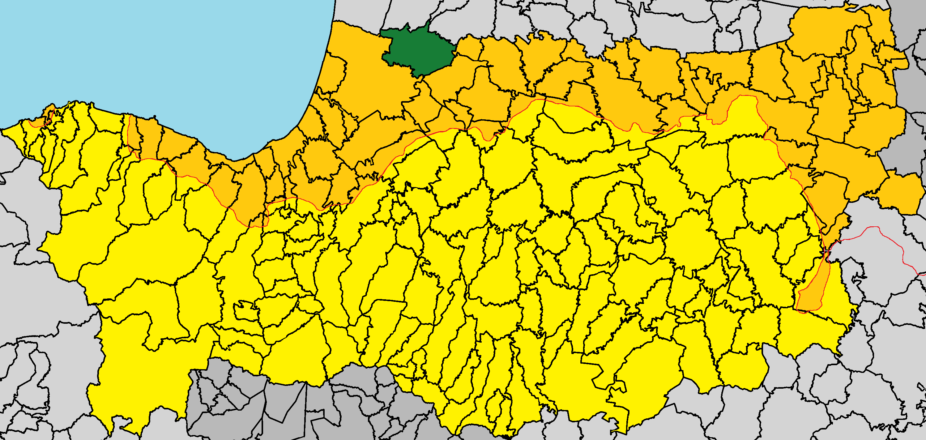 Kalo Chorio Kapouti in Nicosia District (de jure).